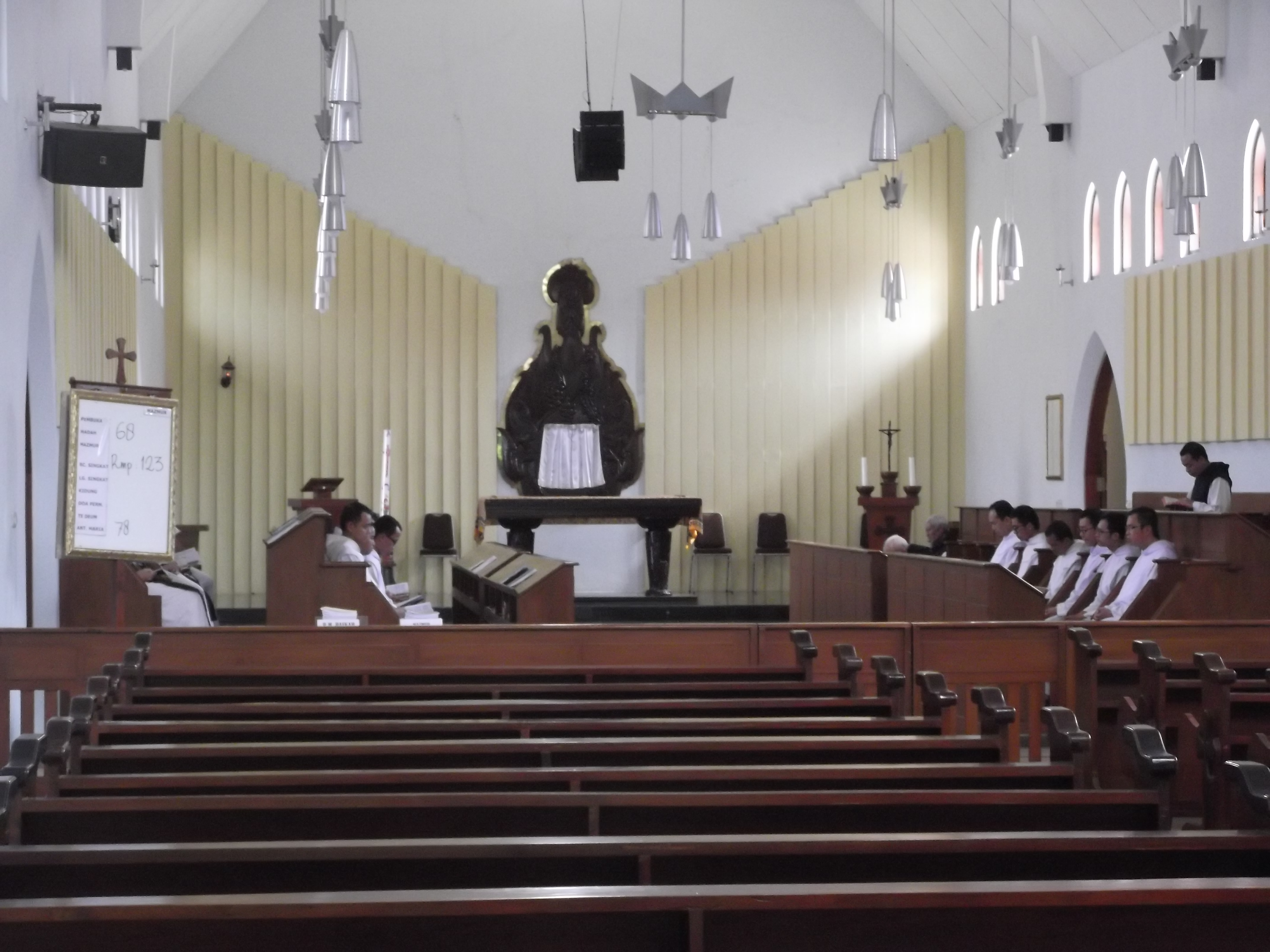 Trappist monks are celebrating Terce in the Church of the Monastery of Saint Mary Rawaseneng, Temanggung, Indonesia.